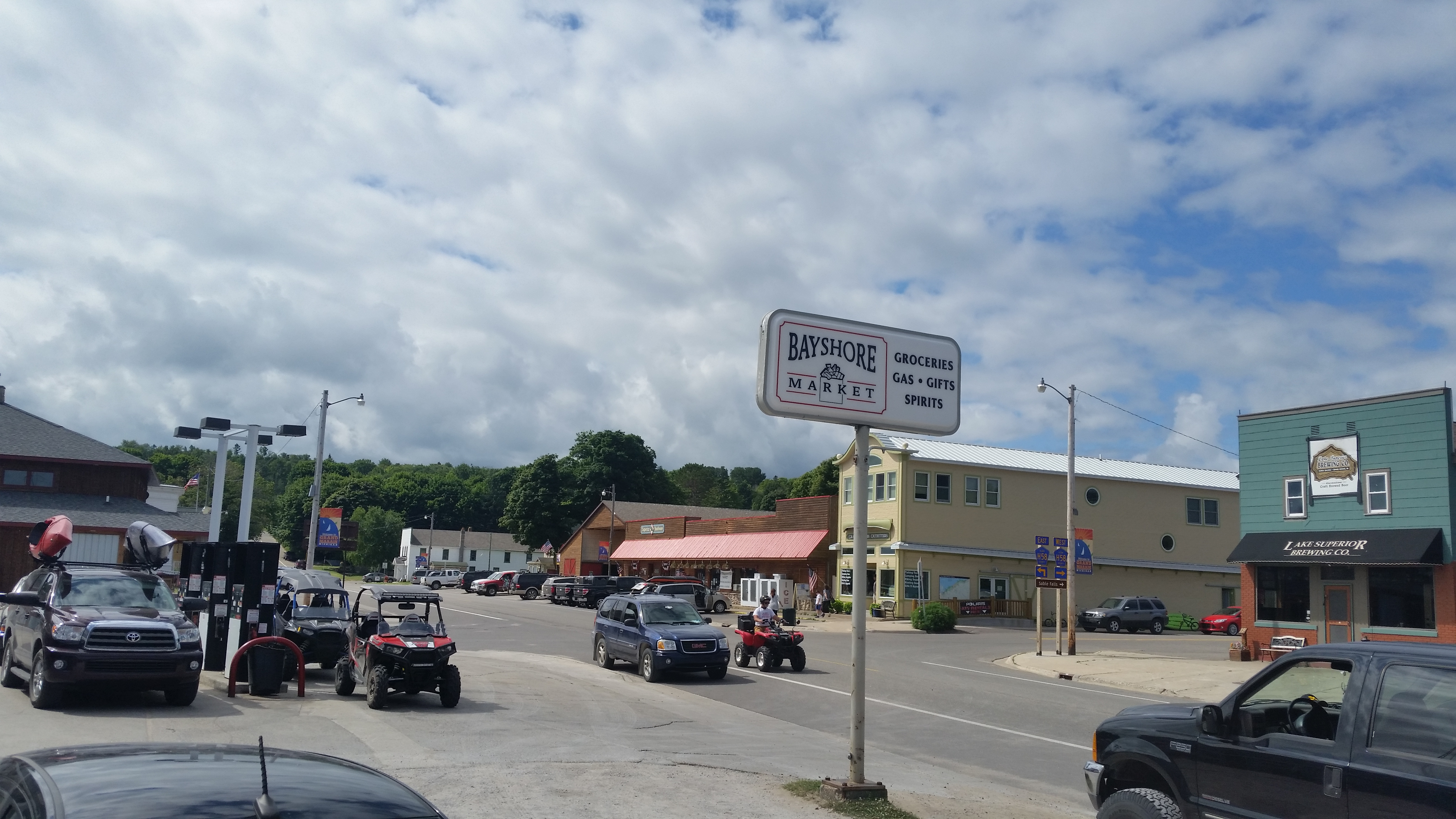 Depicted place: Grand Marais